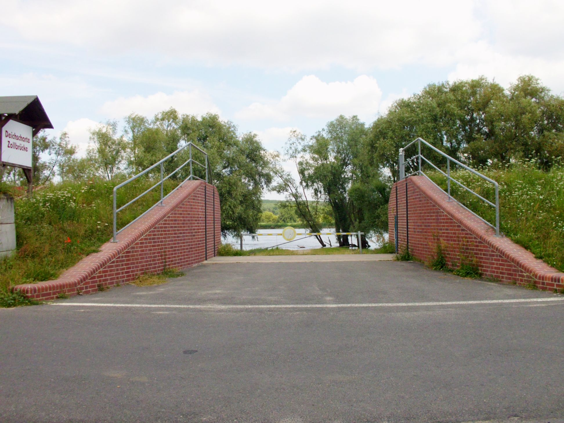 Dike notch Zollbrücke (Street side)